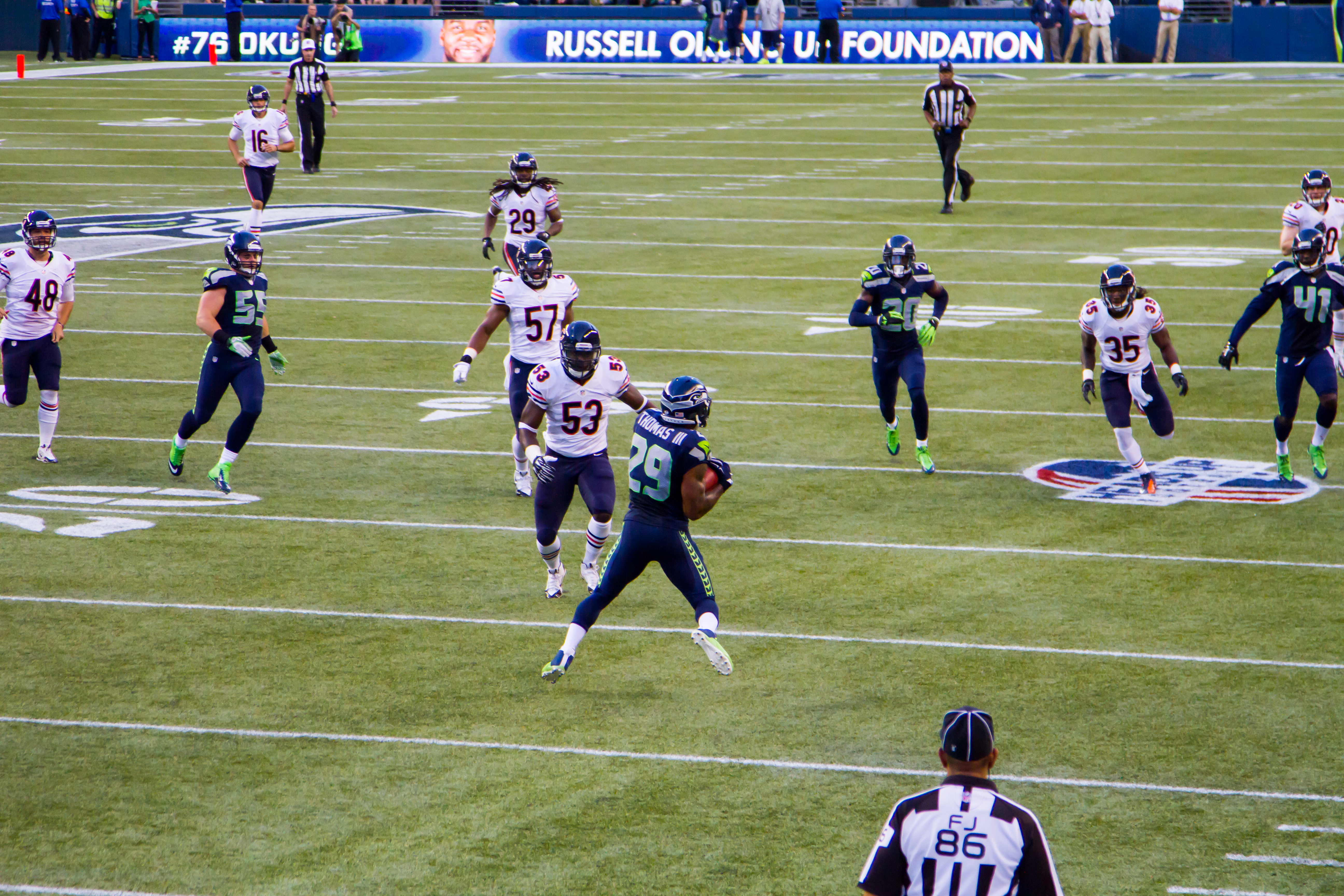 Earl Thomas returning a punt vs. Chicago Bears in 2014.